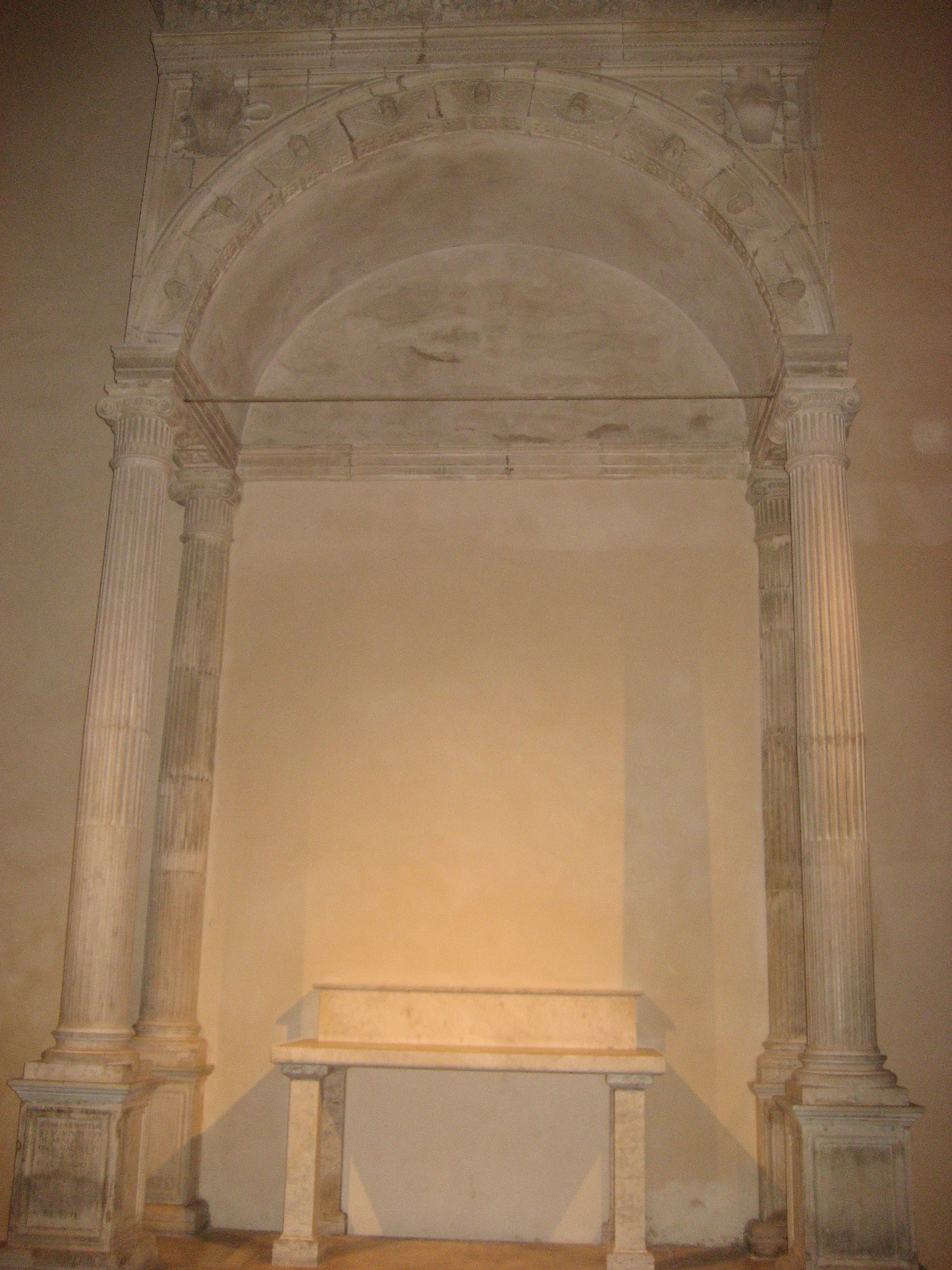 The Chapel Acquaviva, called also Altar of Saint Ann, it was the chapel of the dukes of Atri in the Cathedral. It was realized by Paul de Garviis in 1502, but the inhabitants of Atri destroyed later her the year and so the sculptor had refer it in 1505.